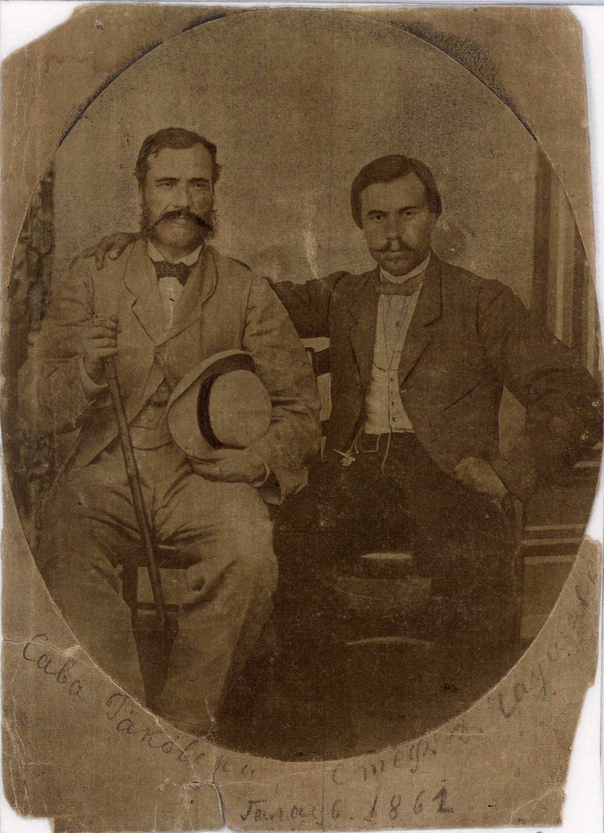 Georgi Rakovski and Stefan Chaushov in Galaţi.